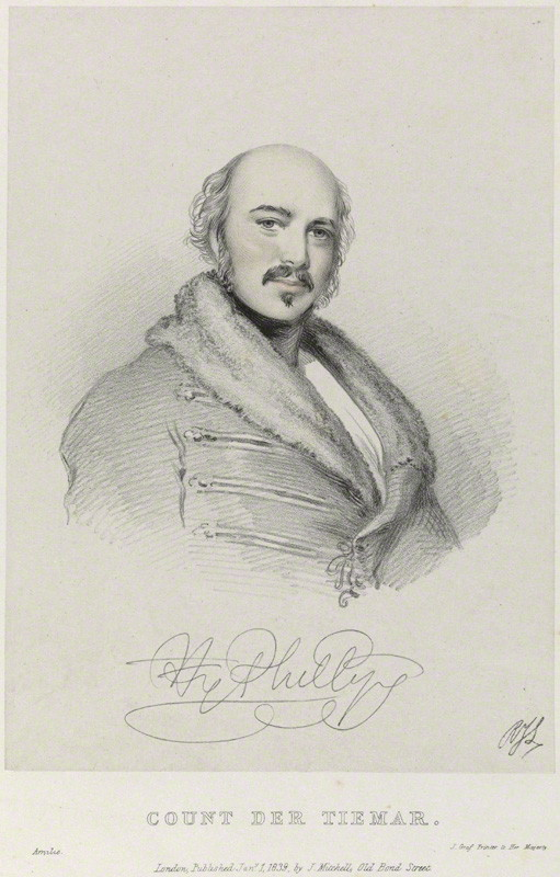 Portrait of Henry Phillips (1801–1876), English singer, in character as Count der Tiemar in Amilie, or, The Love Test by William Michael Rooke.